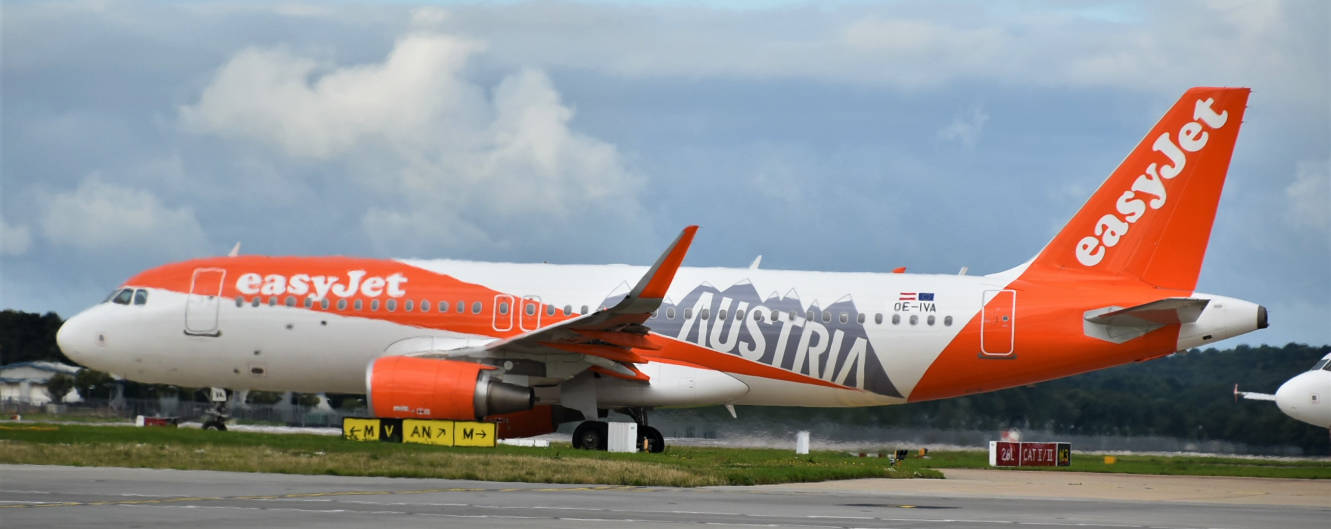 Airbus A320(SL) of EasyJet Austria at London Gatwick-LGW, 12/08/17.